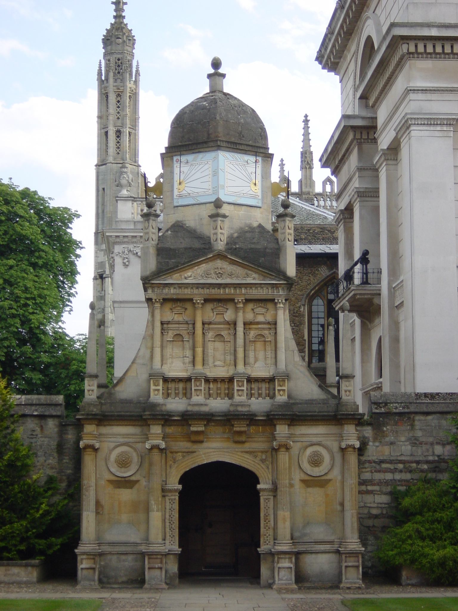 Das Gate of Honour im Caius Court des Gonville and Caius Colleges in Cambridge, UK. Aufnahme aus der nordwestlichen Ecke des Caius Court. Datum: 17. August 2003 15:40 Kamera: Sony Cybershot DSC-P5 Auflösung: 2048 x 1536 px Farbtiefe: 24 0 Fotograf: James F. Image:Gate of Honour, Caius Court, Gonville & Caius (full).jpg